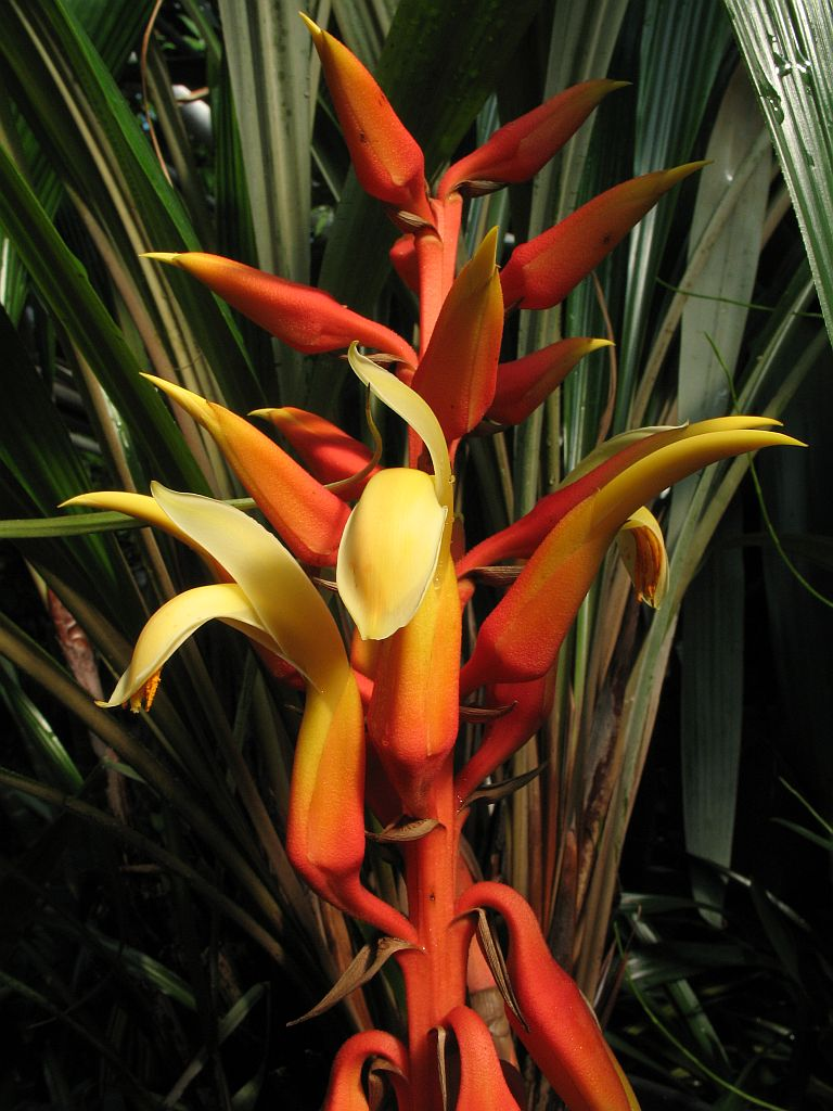 Pitcairnia elvirae, in cultivation at the Botanical Garden of Heidelberg, Germany. This is the type plant of Pepinia verrucosa E. Gross